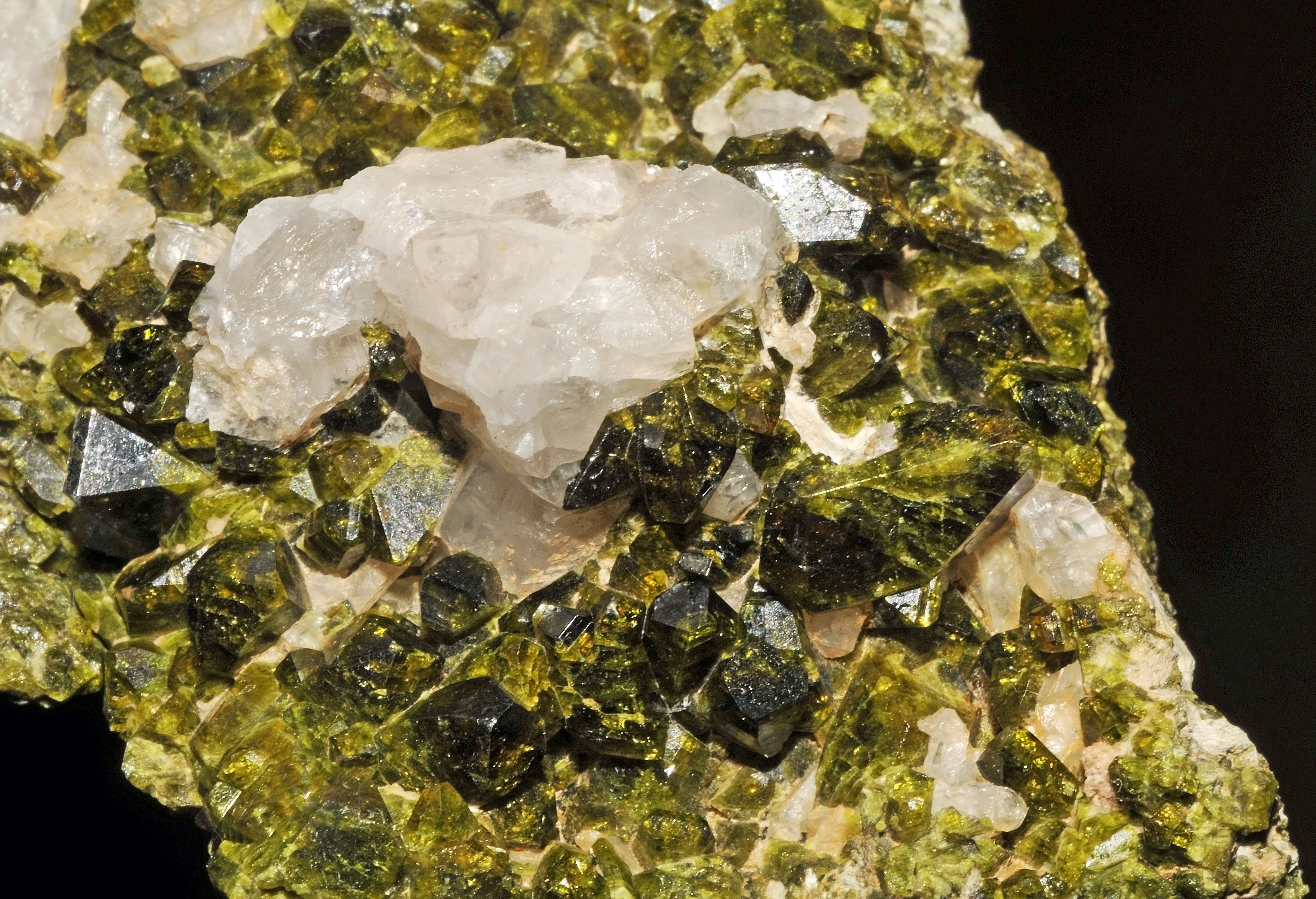 crystals of epidote, crystals of quartz : Triolet Glacier, Ferret Valley, Les Grandes Jorasses Massif, Courmayeur, Aosta Valley, Italy